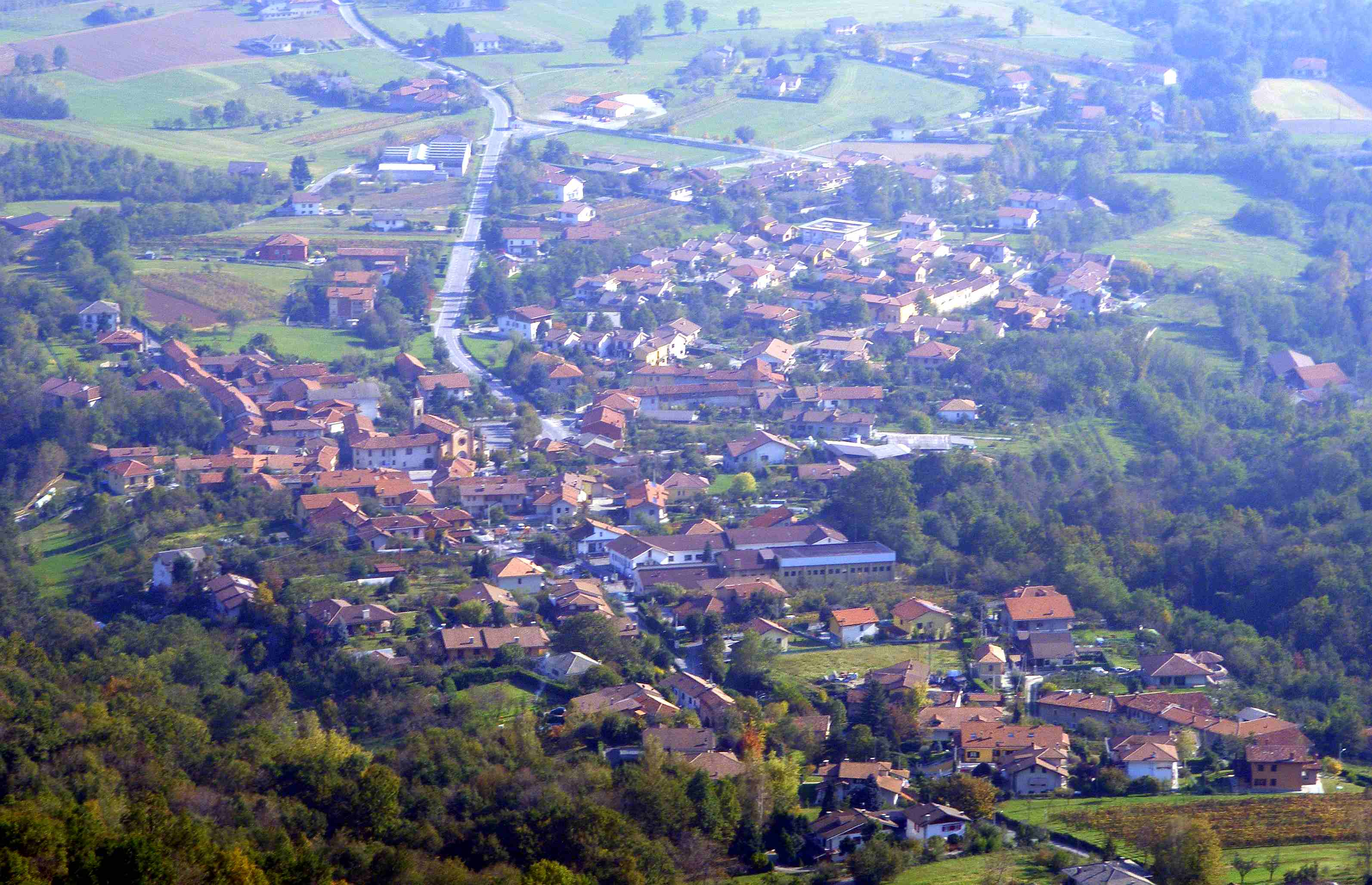 Roletto (TO, Italy) from Rocca Vautero